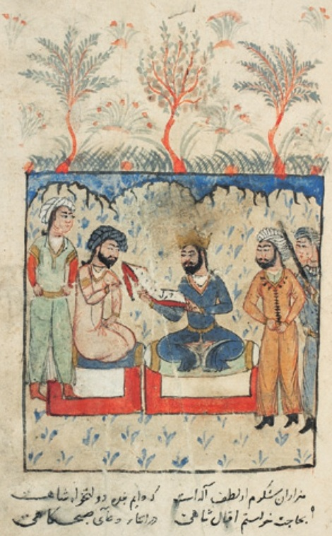 Hushang